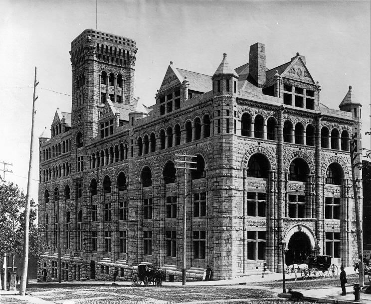 Windsor Station, Montreal, Canada.